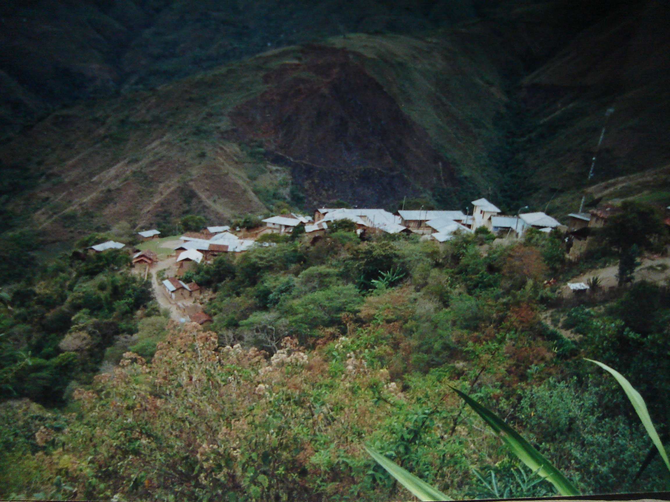 La Capital del distrito, vista desde el camino a Cruz Lomas